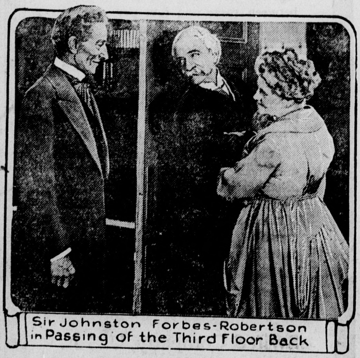 1918 newspaper depicting a scene from the film The Passing of the Third Floor Back (1918).